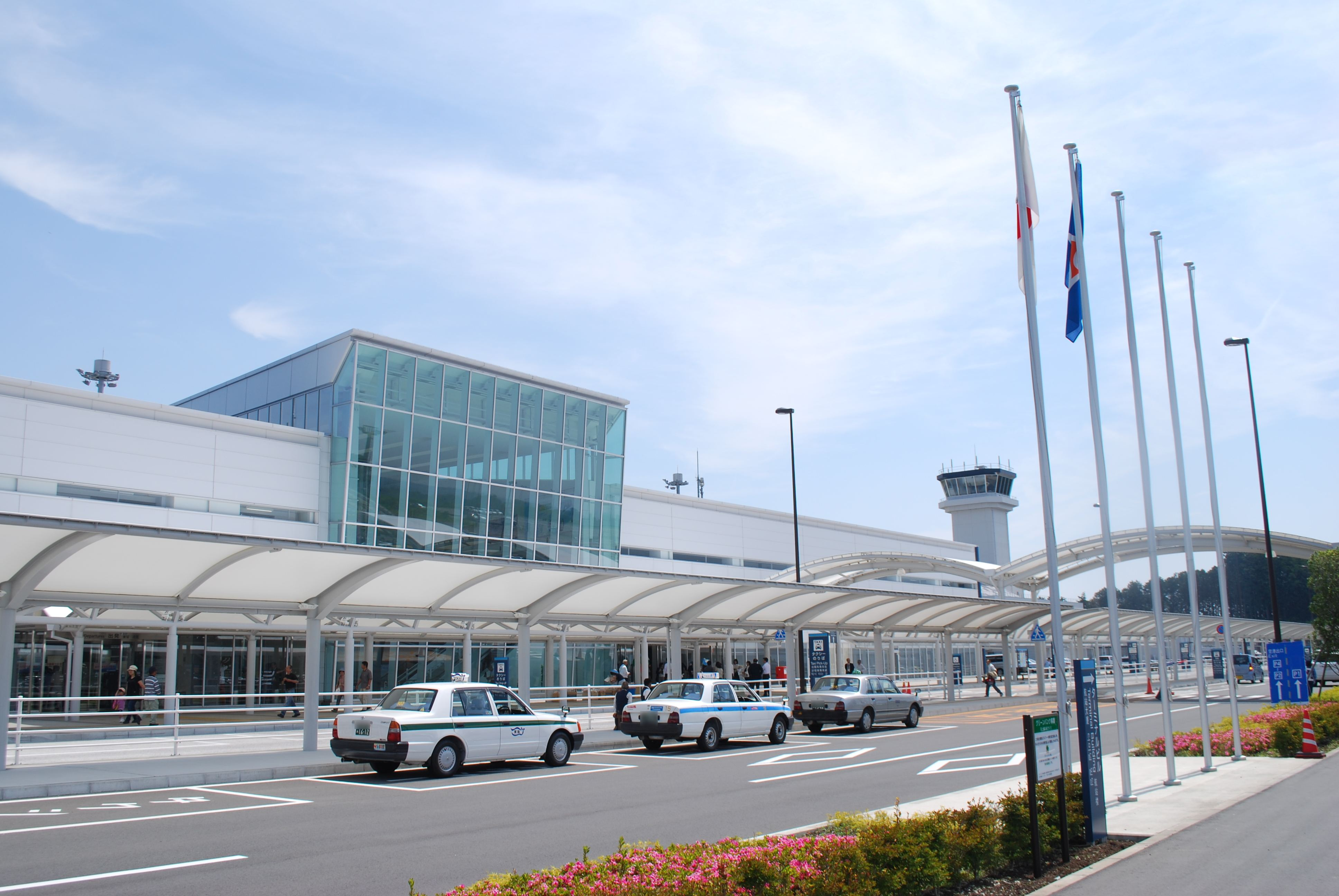 Mt.Fuji-Shizuoka airport,Makinohara-city,Japan